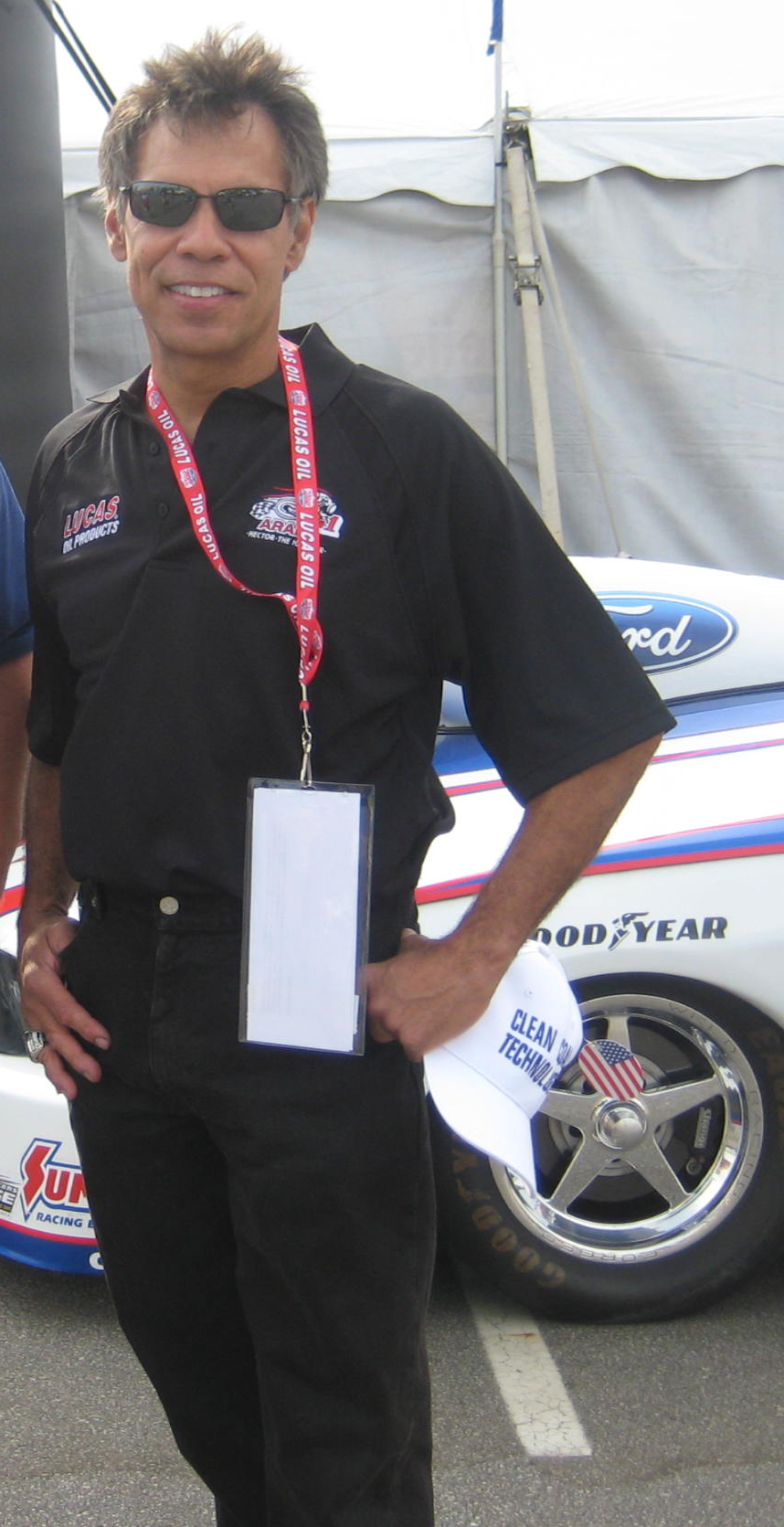 2009 Pro Stock Motorcycle Champion Hector Arana